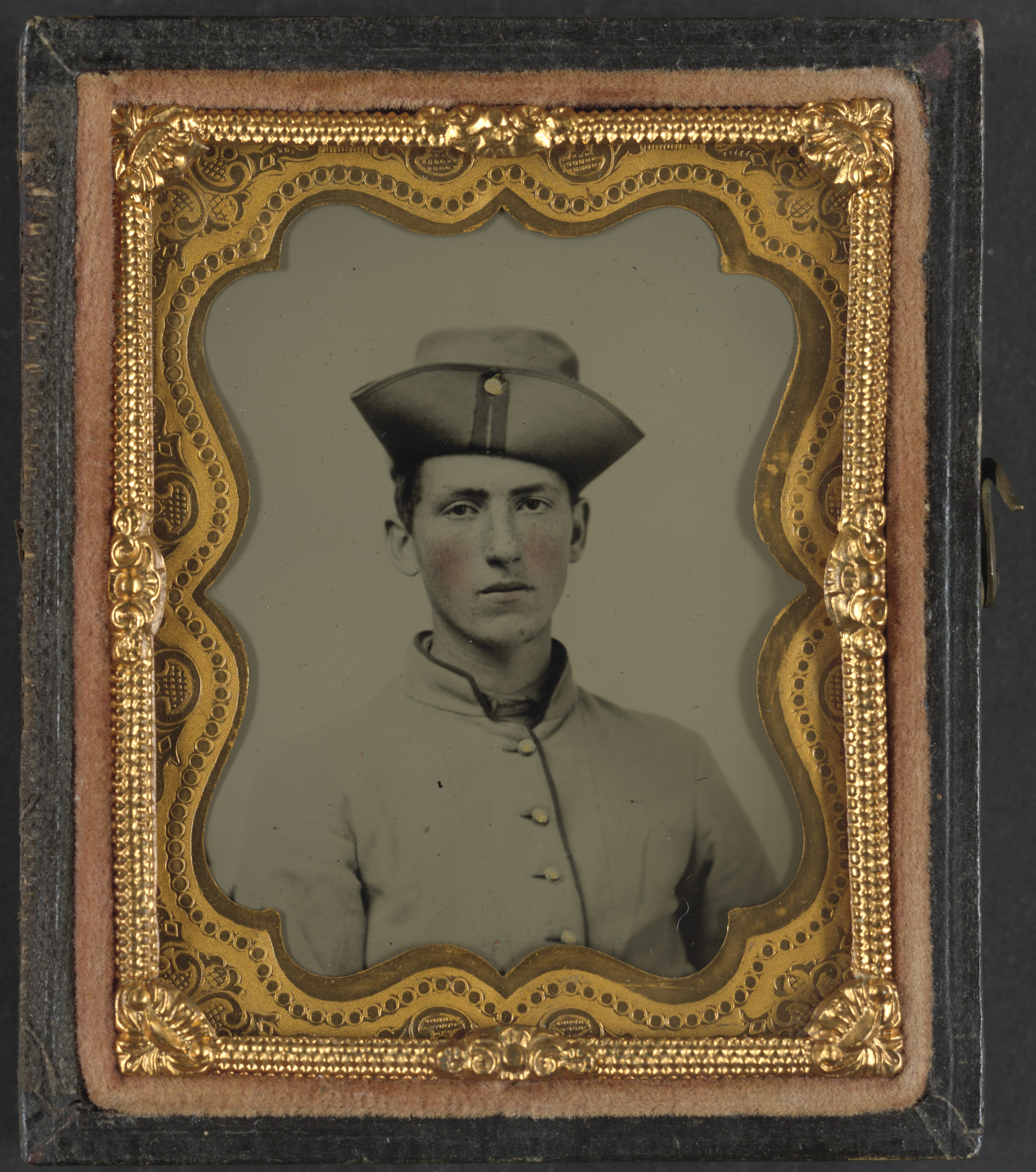 Title: Private Albert B. Martin of Co. 3, Washington Louisiana Light Artillery Battery Abstract/medium: 1 photograph : ninth-plate ambrotype, hand-colored ; 7.4 x 6.2 cm (case)